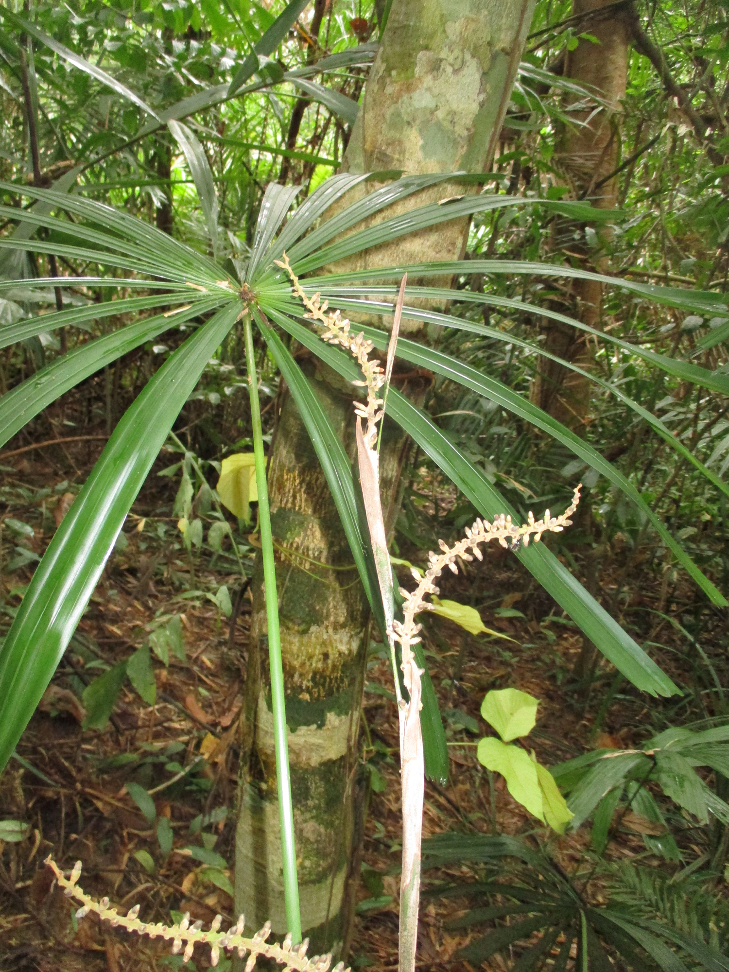 Licuala cattienensis from Cat Tien National Park by Roy Bateman